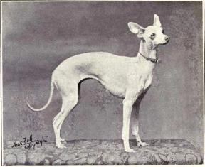 Italian Greyhound from 1915